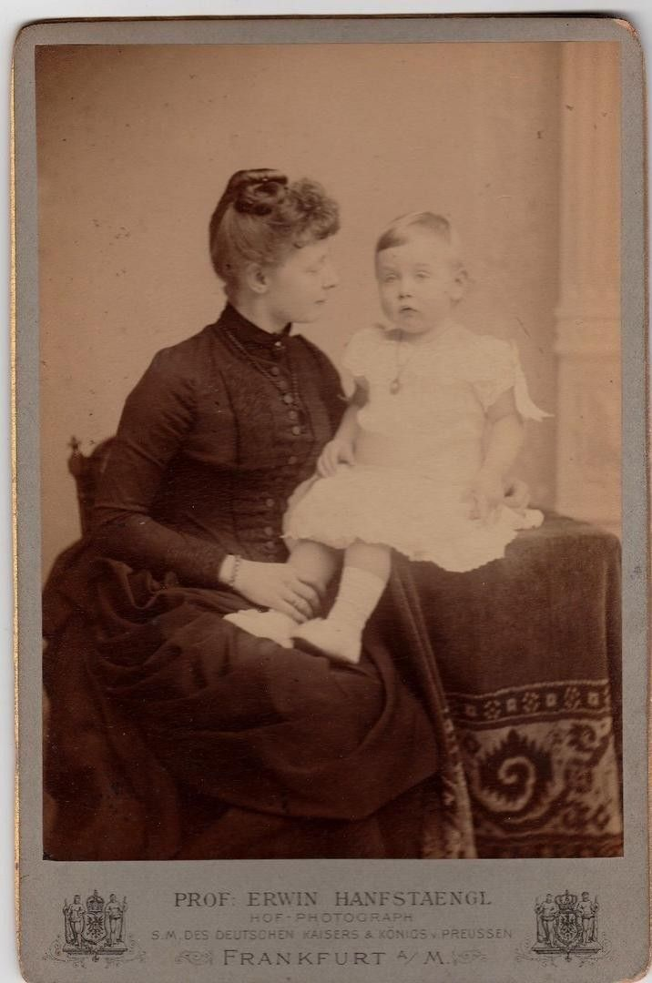 Hereditary Princess of Anhalt neé Princess Elisabeth of Hesse-Kassel (1861-1955) with her daughter Princess Antoinette of Anhalt(1885-1963)